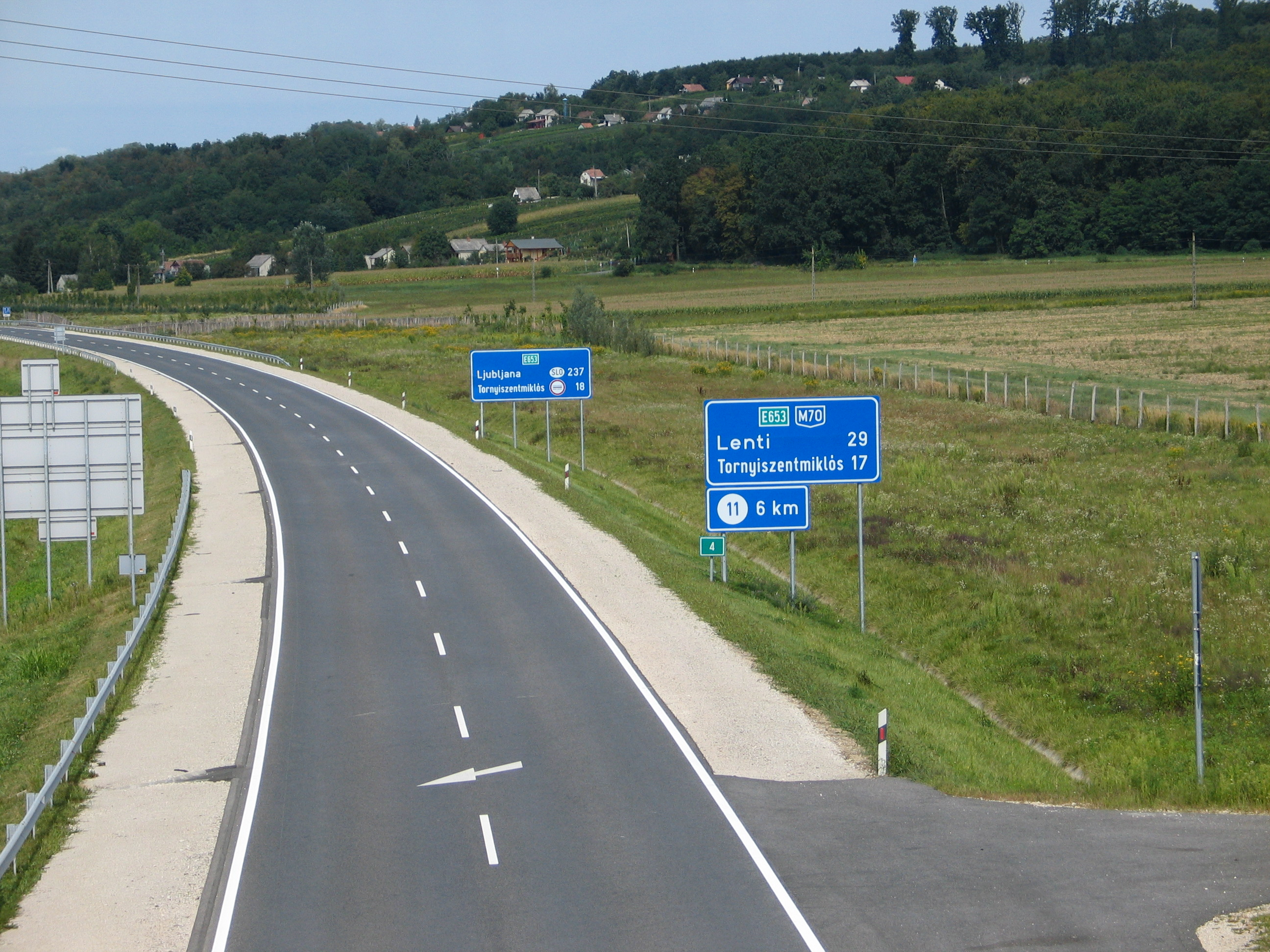 Motorway M70, Murakáta, Hungary